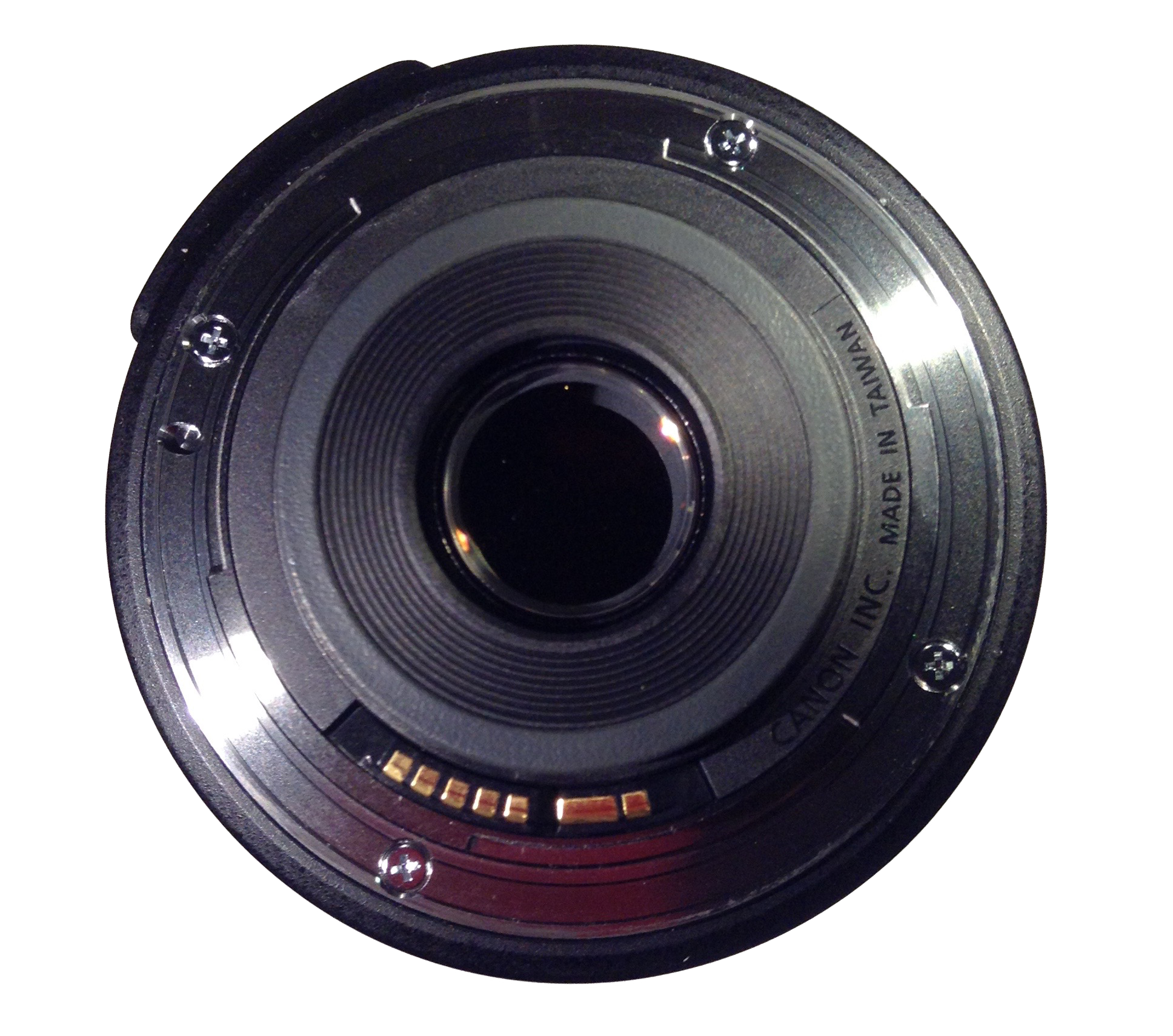 Canon EF-S 18–135mm